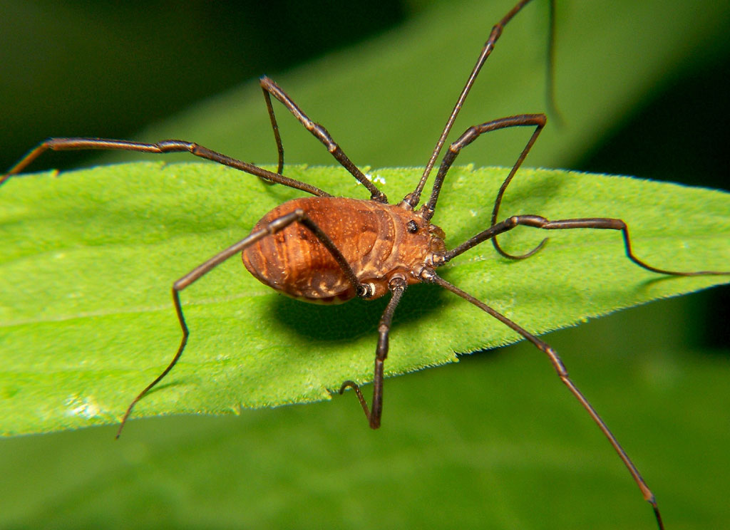 jpeg image, male Hadrobunus grandis, Harvestman: Order Opiliones, Family Sclerosomatidae